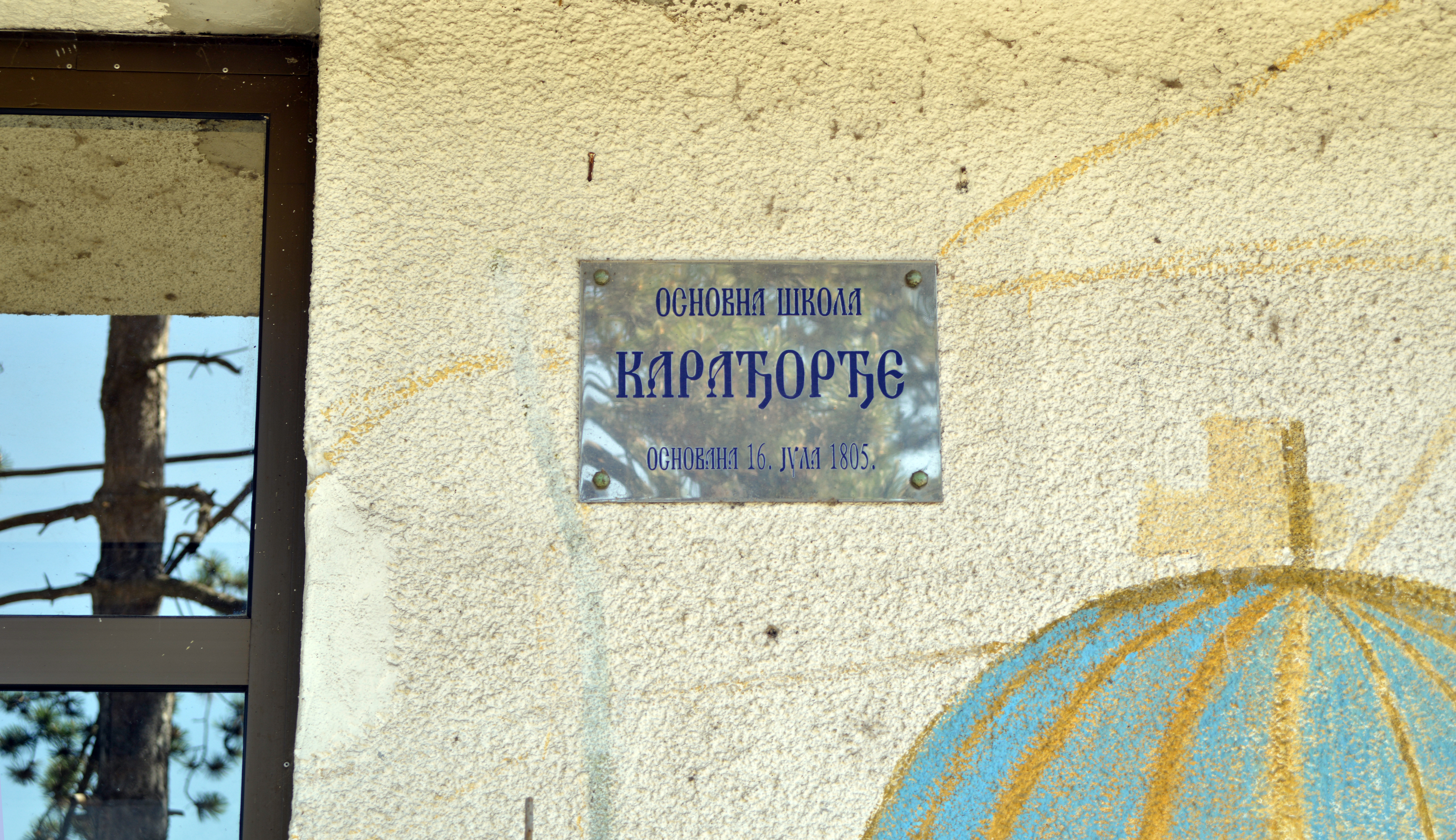 Primary school in Ostružnica, suburban settlement of Čukarica, a municipality of the city of Belgrade, Serbia - board with inscription: "Primary school 'Karađorđe' founded in July 16th 1805"